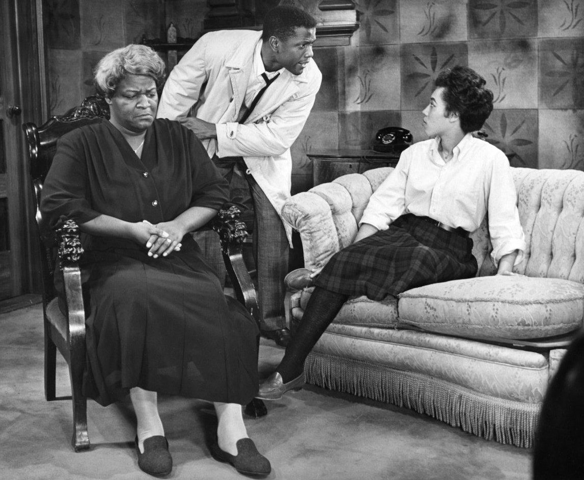 Photo of a scene from the play A Raisin in the Sun. From left-Claudia McNeil as Lena Younger, Sidney Poitier as Walter Younger and Diana Sands as Beneatha Younger.